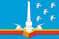 ASlavyansk-na-Kubani (Krasnodar Krai), flag